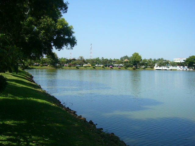 Part of the lake Nong Han near Sakon Nakhon, Thailand.